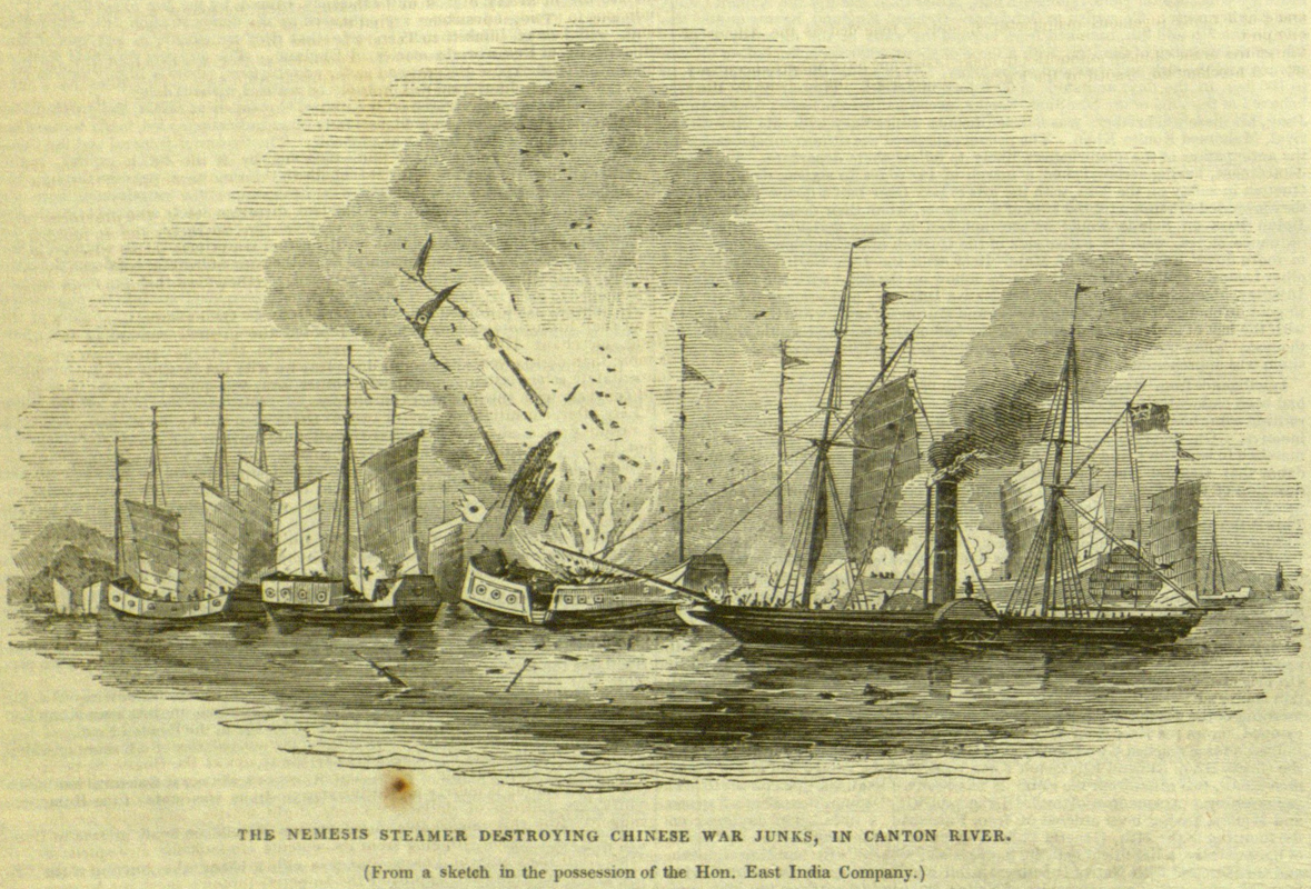 The HEIC Nemesis steamer destroying Chinese war junks in the Canton River during the First Opium War.